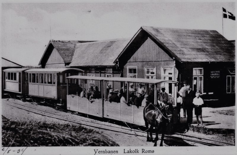 Postkort fra 1934 - Lakolk - Rømø - Denmark